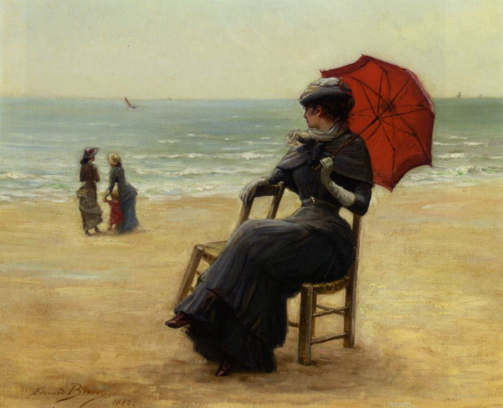 Sitting by the sea, oil on canvas by Édouard Bisson